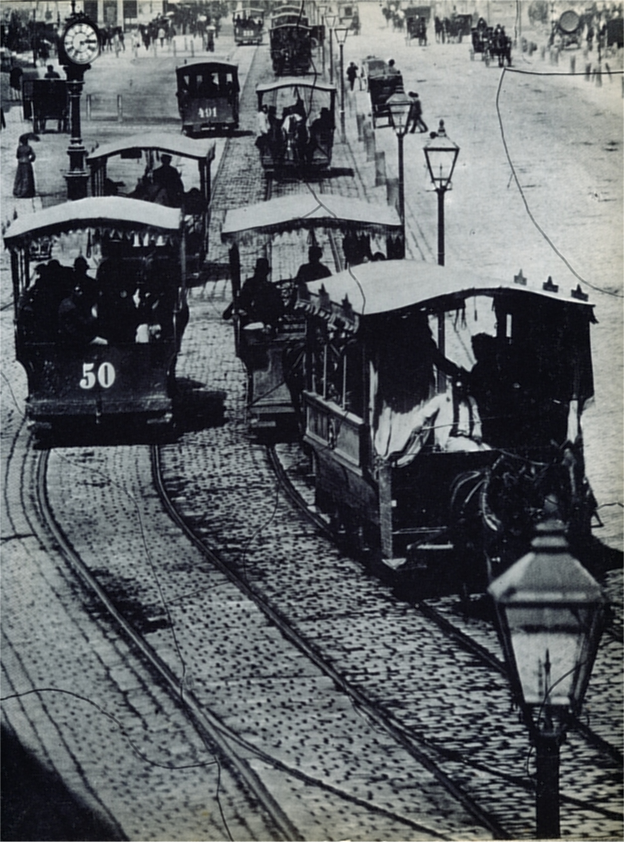 Horse tramway on the Praterstraße in Vienna